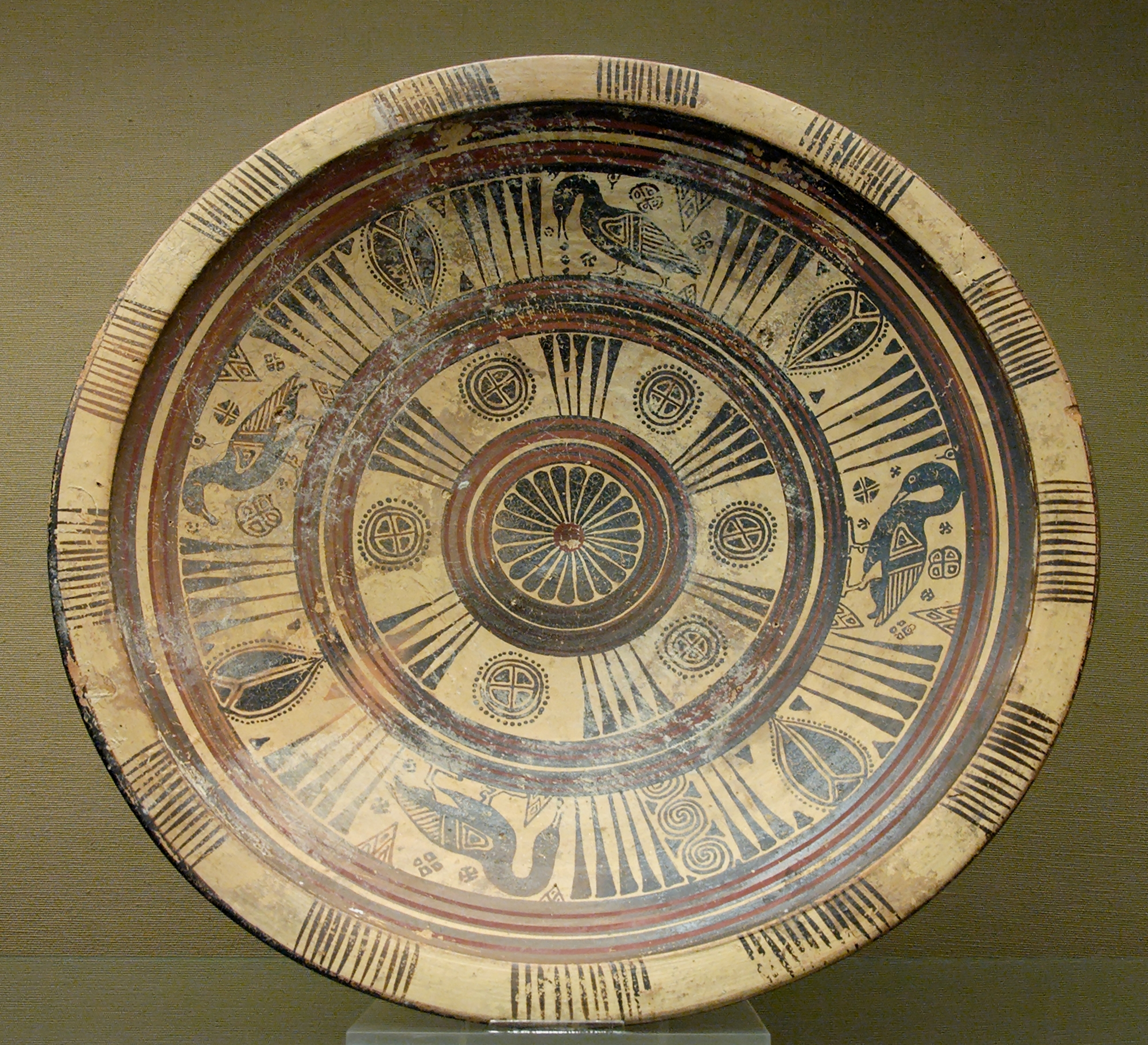 Stemmed plate with birds and patterns placed in the segments of concentric circles. Terracotta, Eastern Greek Orientalizing, ca. 600 BC. From Kameiros in Rhodes.